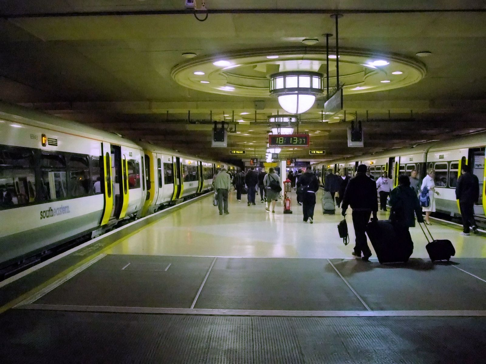 Charing Cross mainline station platform 4 looking to buffers